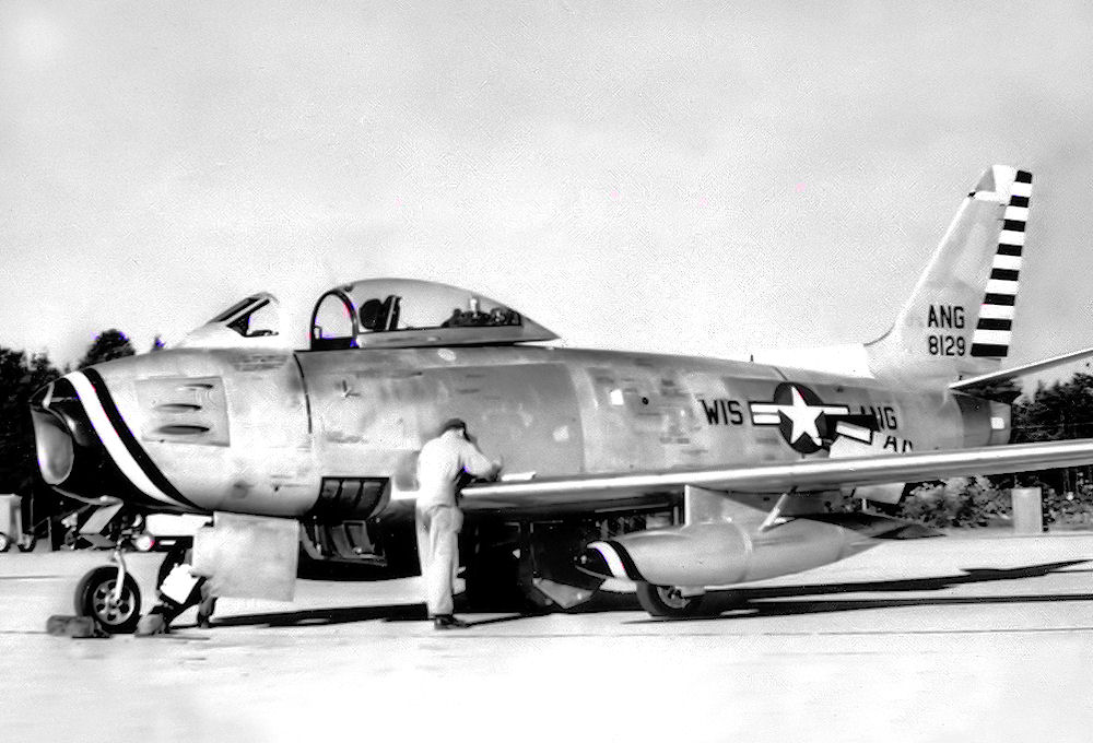 126th Fighter-Interceptor Squadron - North American F-86A-5-NA Sabre 48-129. Was Originally ordered as an F-86B.